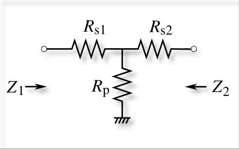 T type unbalanced attenuator circuit